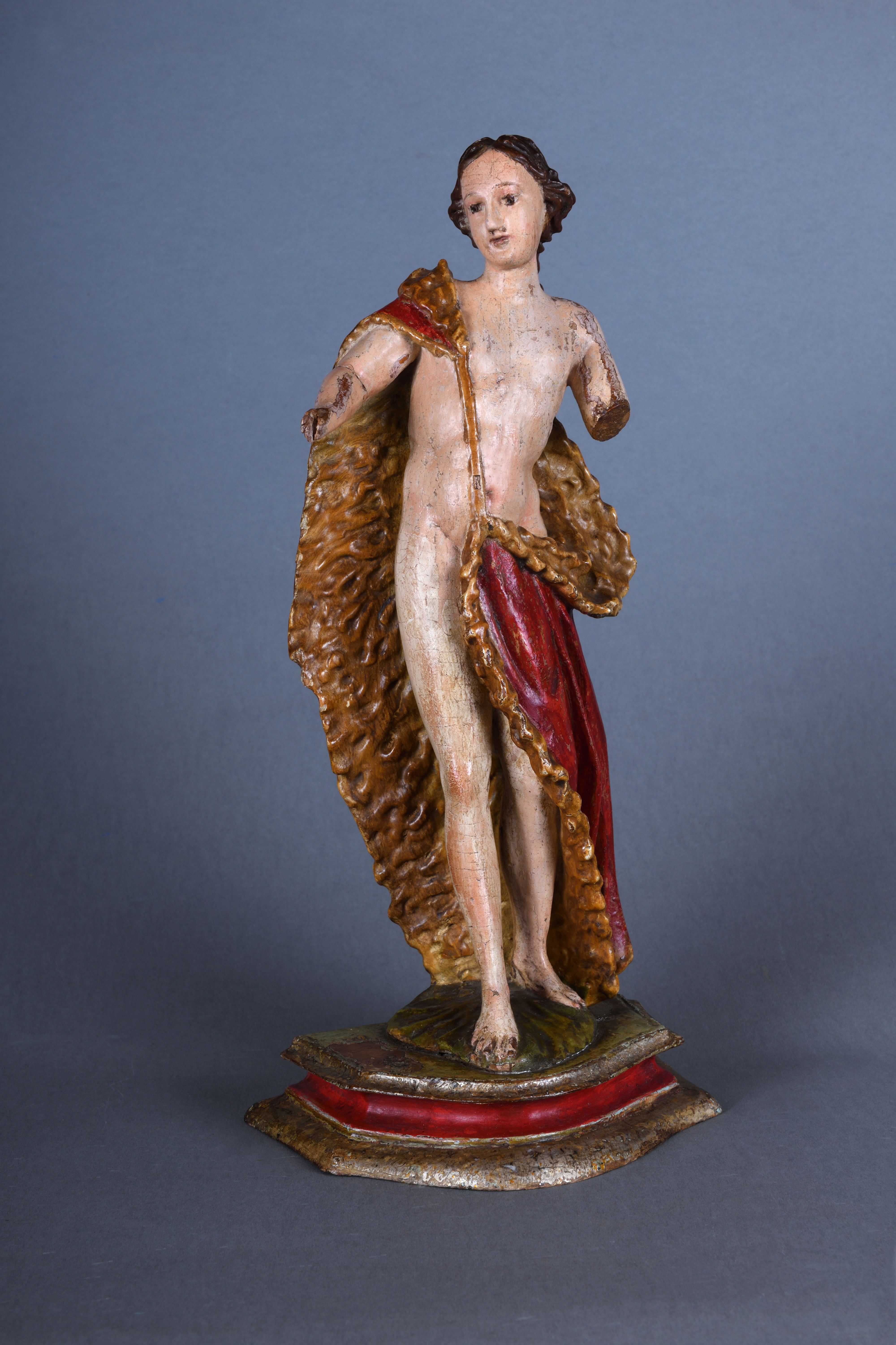 Woodcarved polychrome figure representing Saint John Baptist from Val Gardena, 18th century.